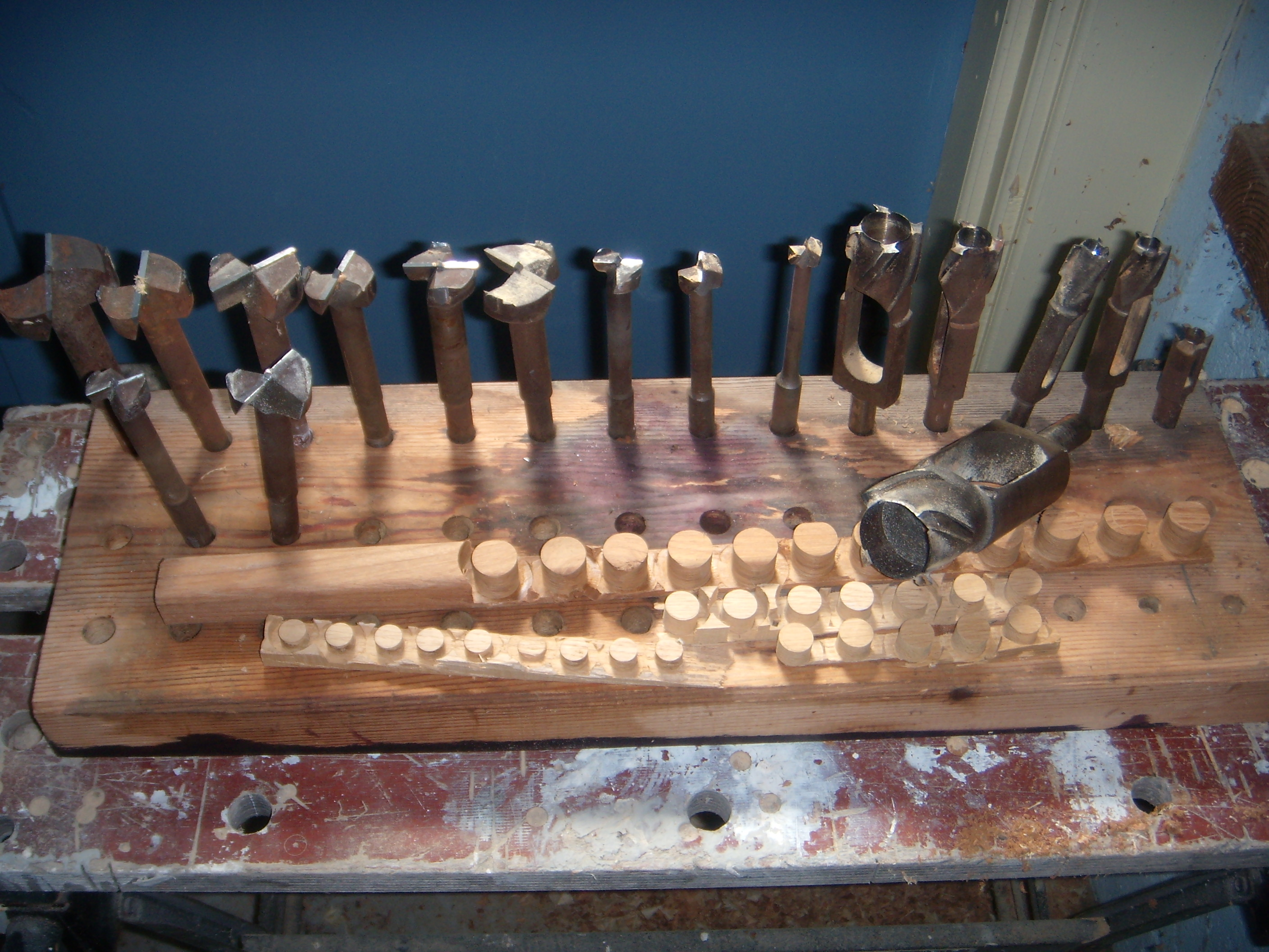 Drilltools for woodworking.